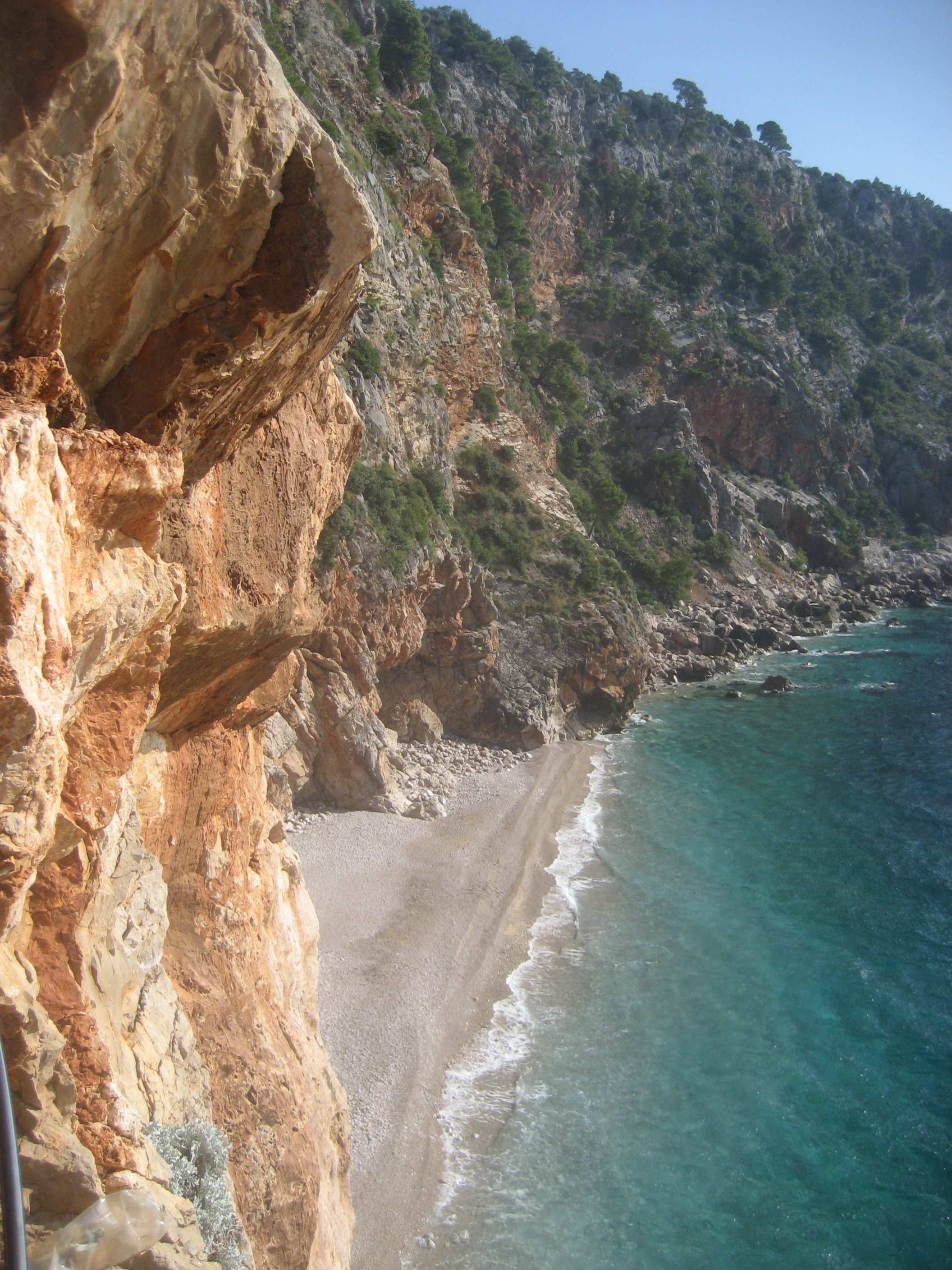 Konavoske Stijene (Konavle Rocks) and Pasjača, wonderfull hidden beach, Southern Croatia